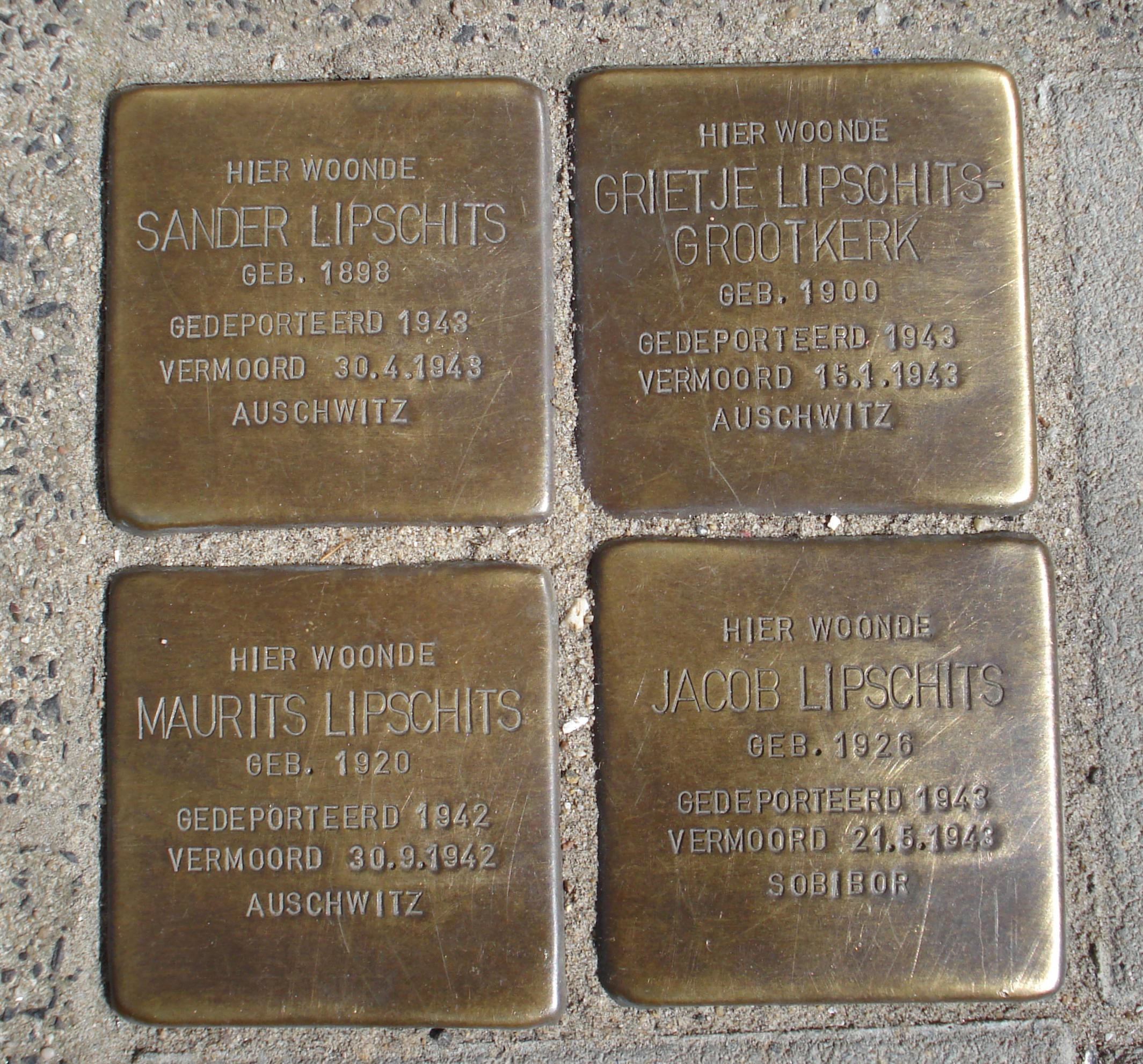 Stolpersteine in Agniesestraat 59, Rotterdam, the Netherlands. Family Lipschits.